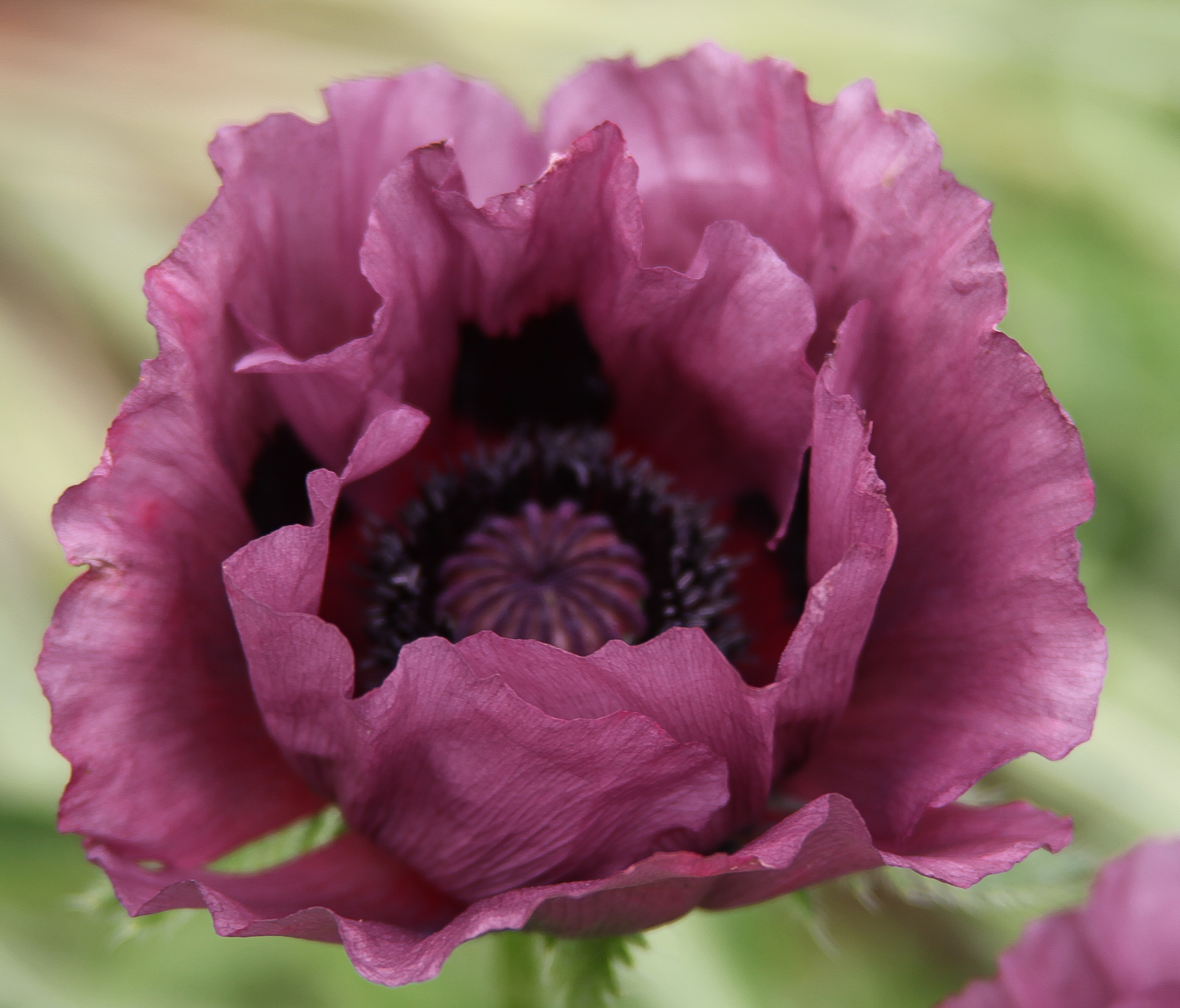 as seen in the walled garden of Helmsley Castle, Yorkshire, England